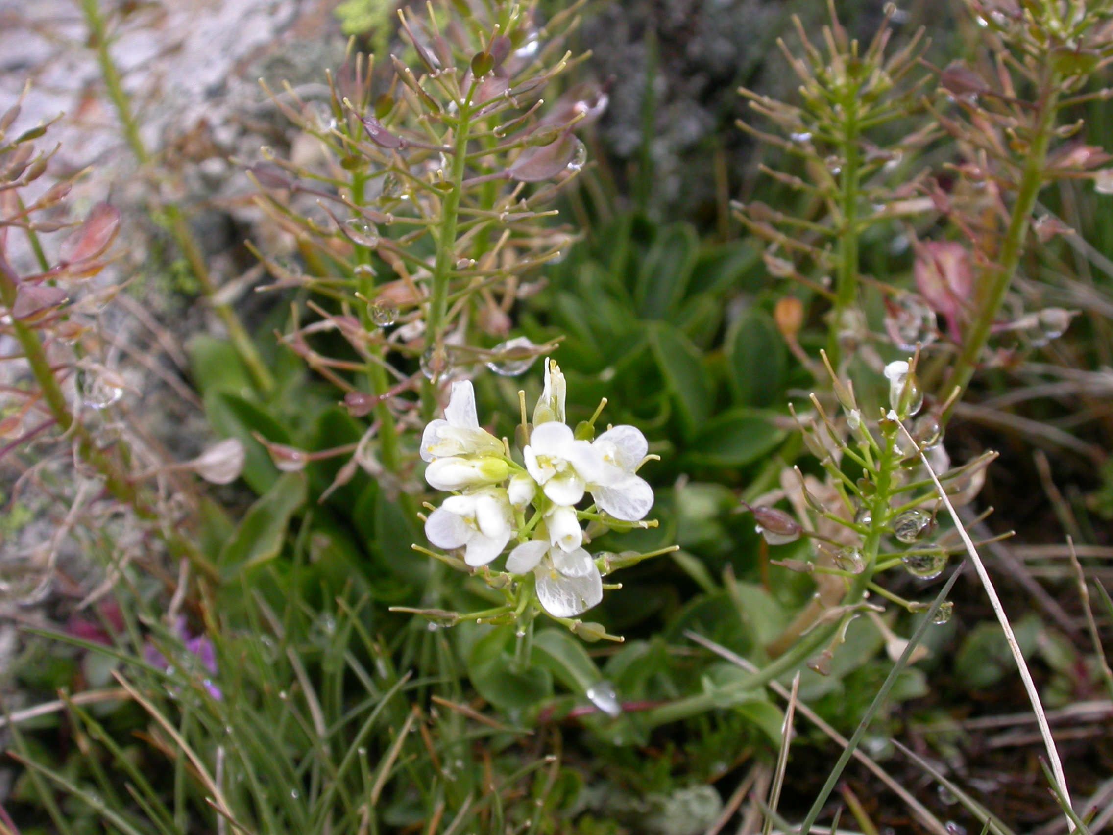 Thlaspi sylvium Zermatt, way to Findelen(Kanton Wallis, Switzerland), 2500 m Author: Barbara Studer – own photograph Date: 2.08.06